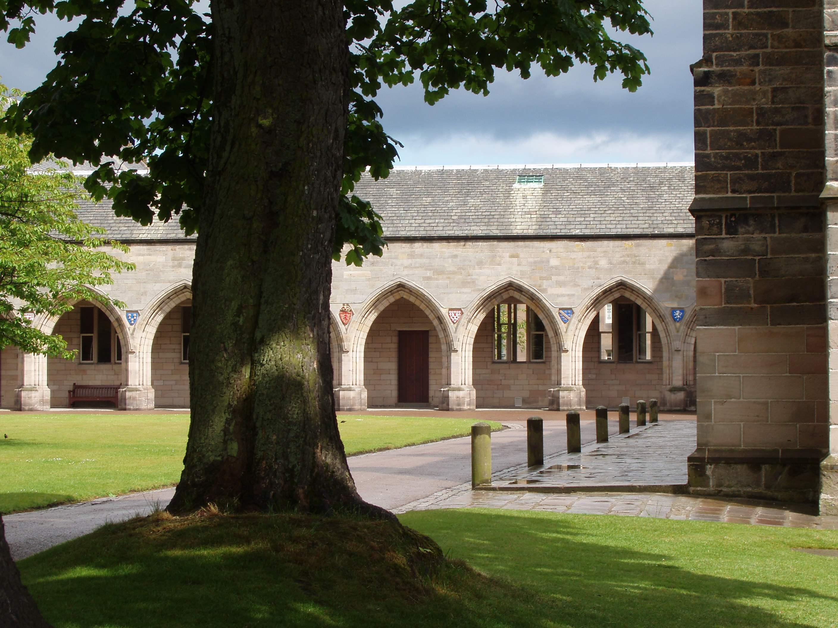 Elphinstone Hall (University of Aberdeen, UK) in the background, Kings College chapel to the right and a great sodding tree in the middle. Taken from the High Street, Old Aberdeen.